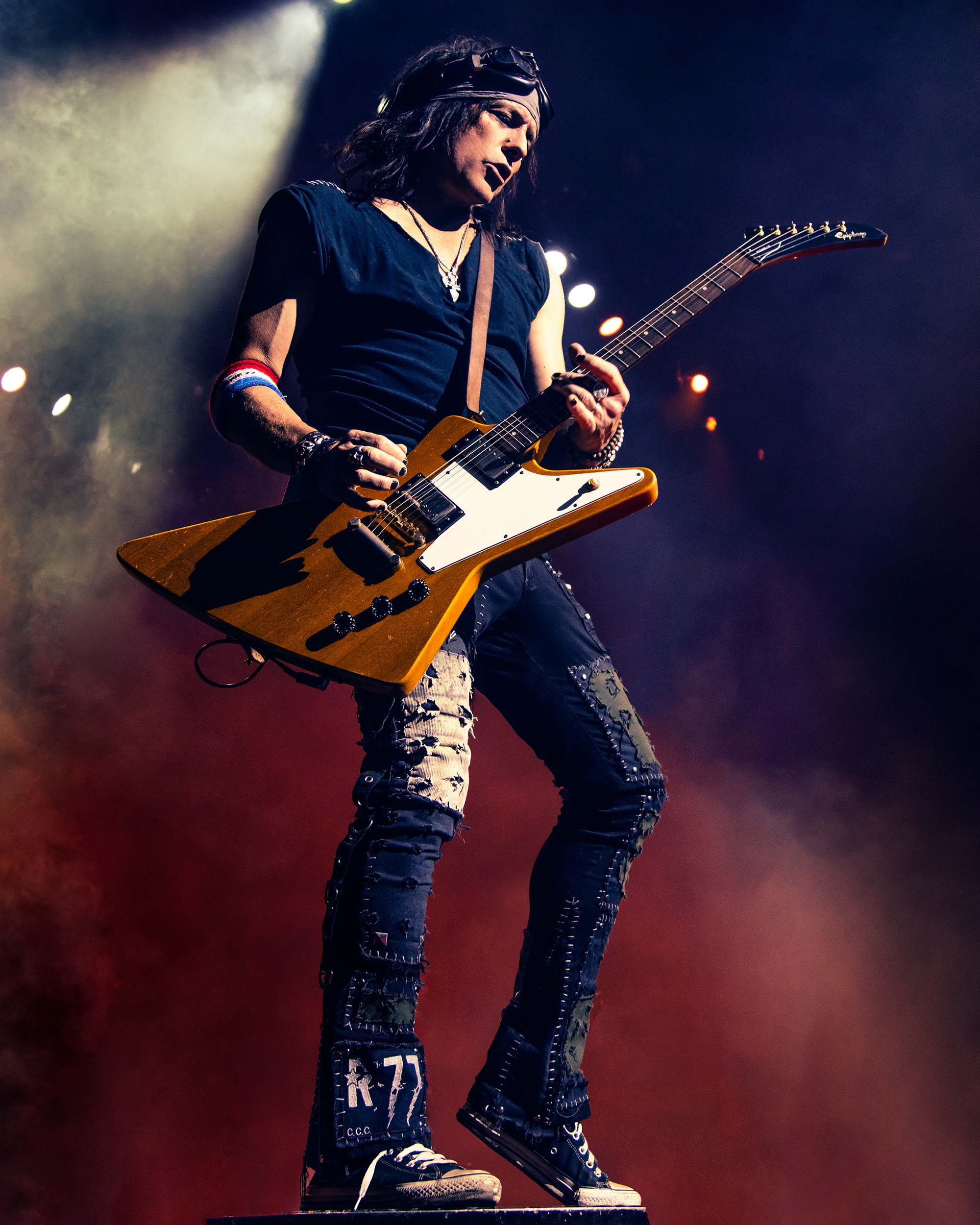 Ryan Roxie performing with Alice Cooper in St Louis, MO, October 20, 2018 photo by Victor Chalfant